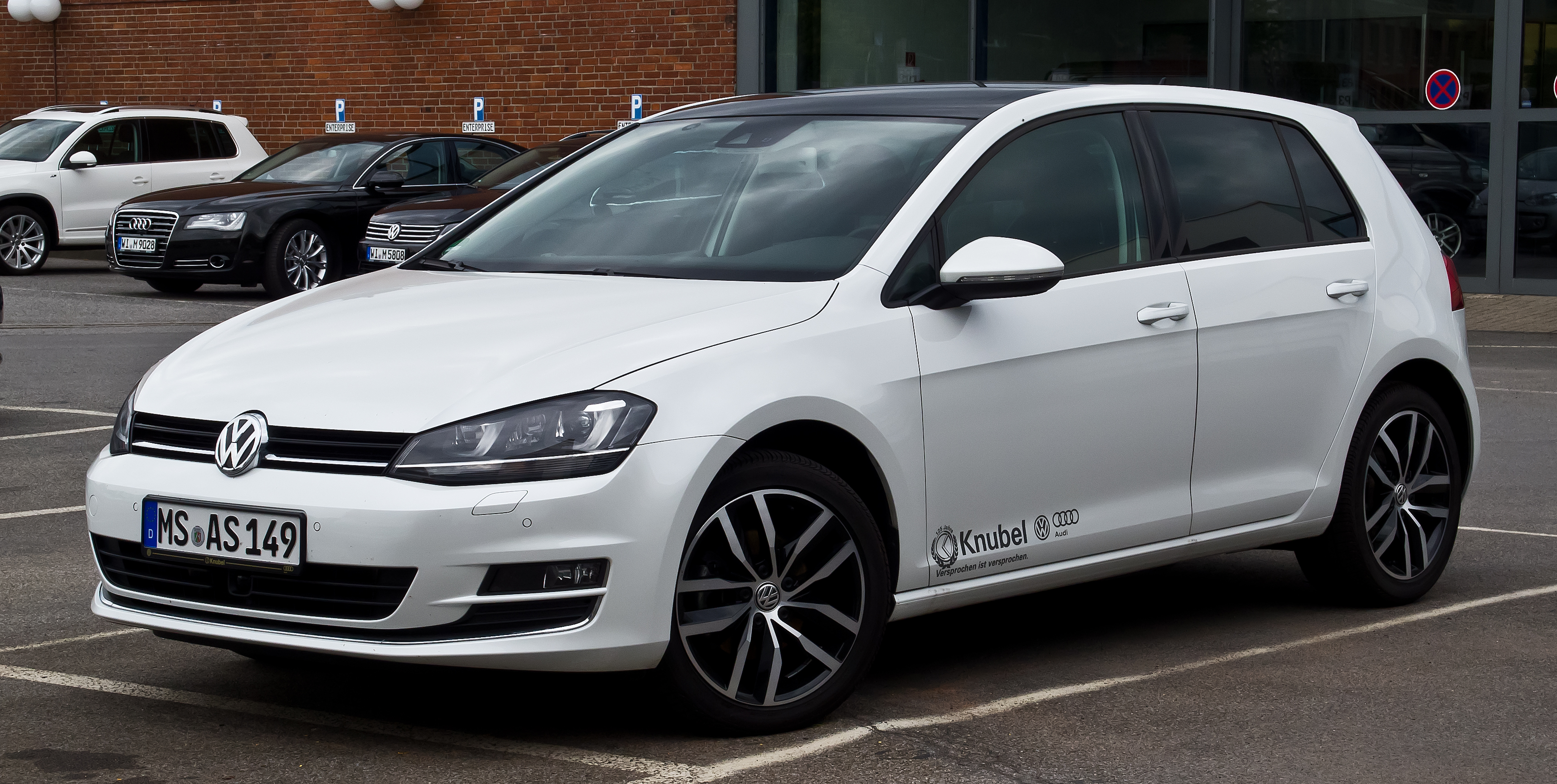 VW Golf 2.0 TDI BlueMotion Technology Highline (VII)